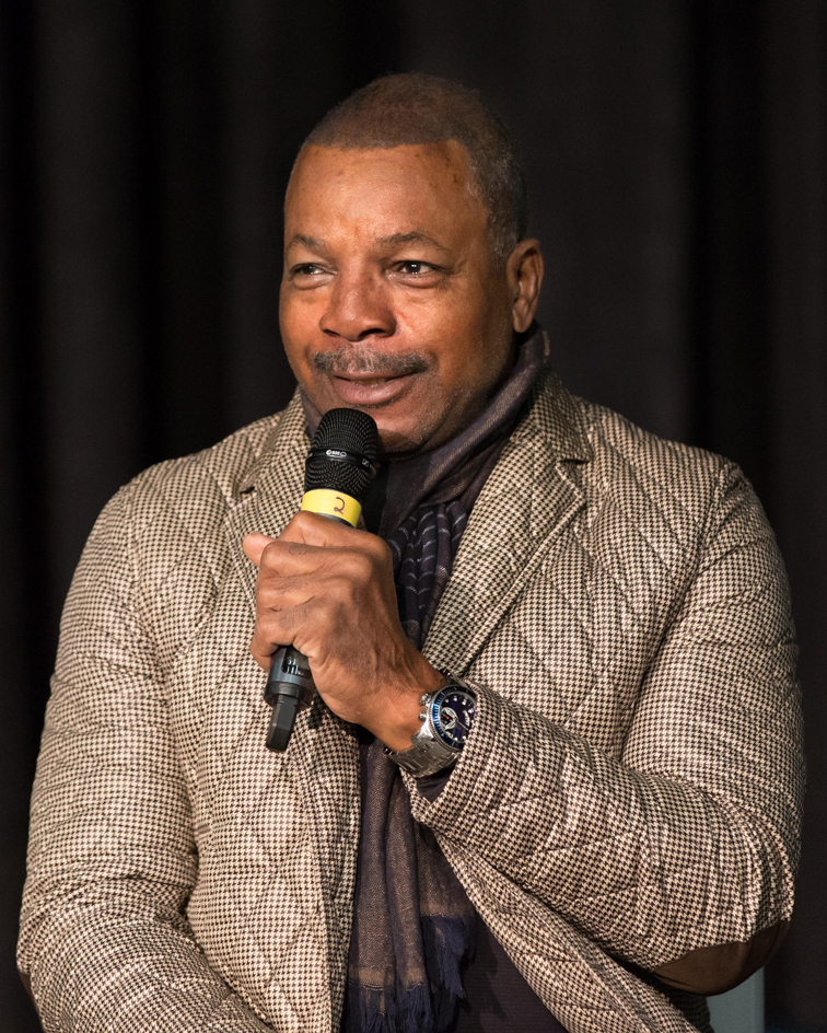 Carl Weathers speaks at the Calgary Comic Expo 2015.